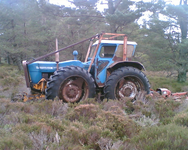 Ford County. This tractor is swiping rank heather to create a network of connected habitat to help in brood development of Capercaillie chicks. The chicks feed on new blaeberry growth, but can still dive for cover in surrounding heather when under threat of predation from raptors or foxes